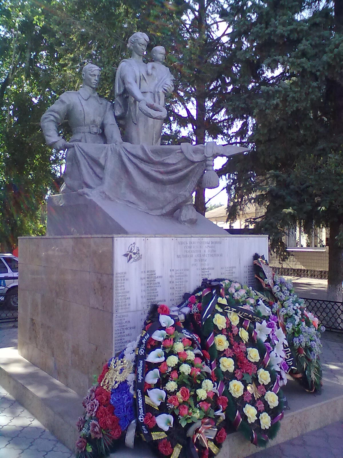 Monument in Frolovo